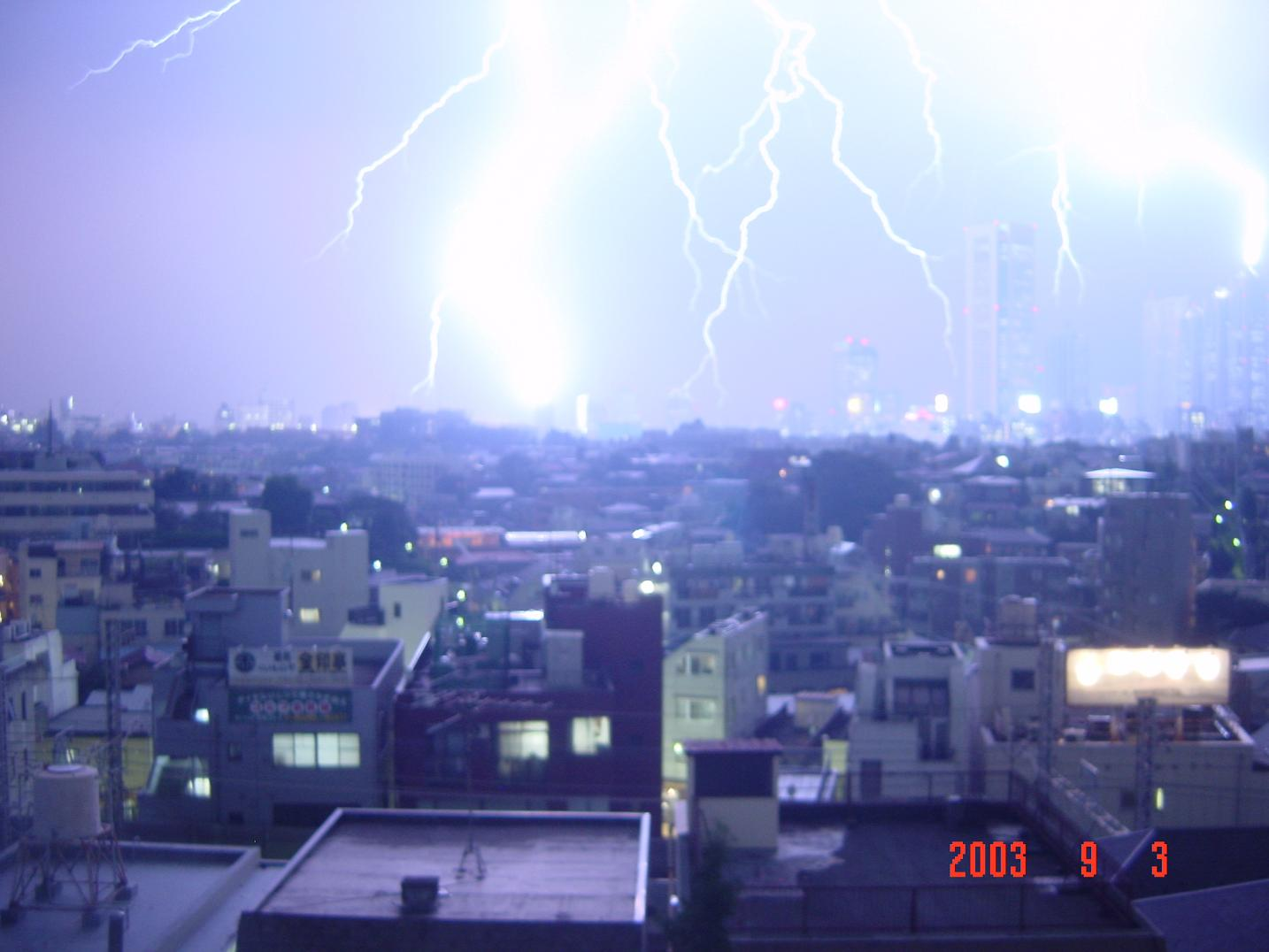 Lightning over Shinjuku, Tokyo, Japan